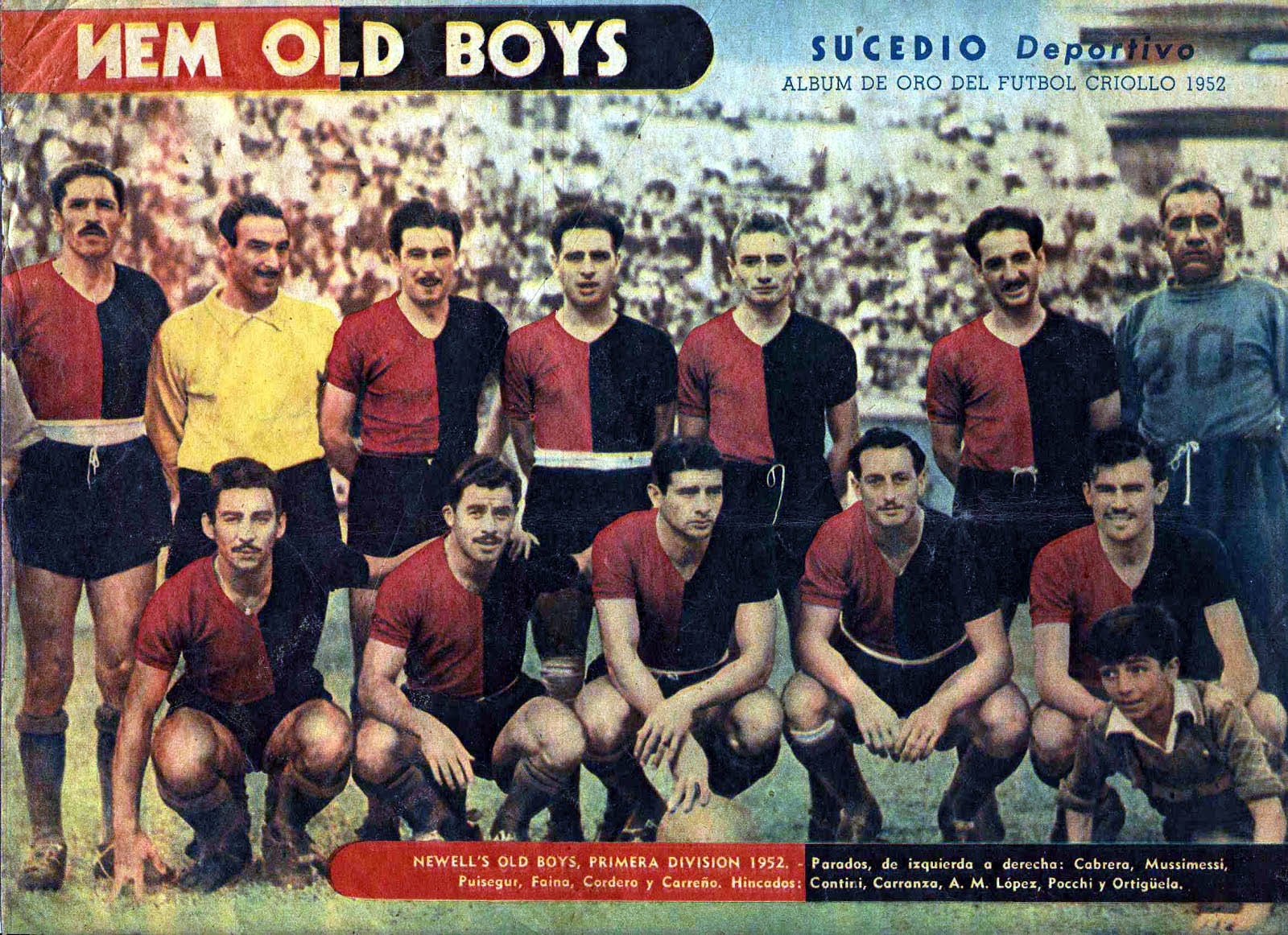 Team Club Atlético Newell's Old Boys. Year 1952.